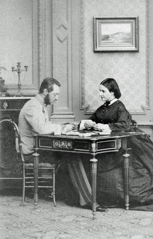 Archduke Joseph Karl of Austria, Palatine of Hungary (1833 – 1905) and his wife Princess Clotilde of Saxe-Coburg and Gotha (1846–1927)